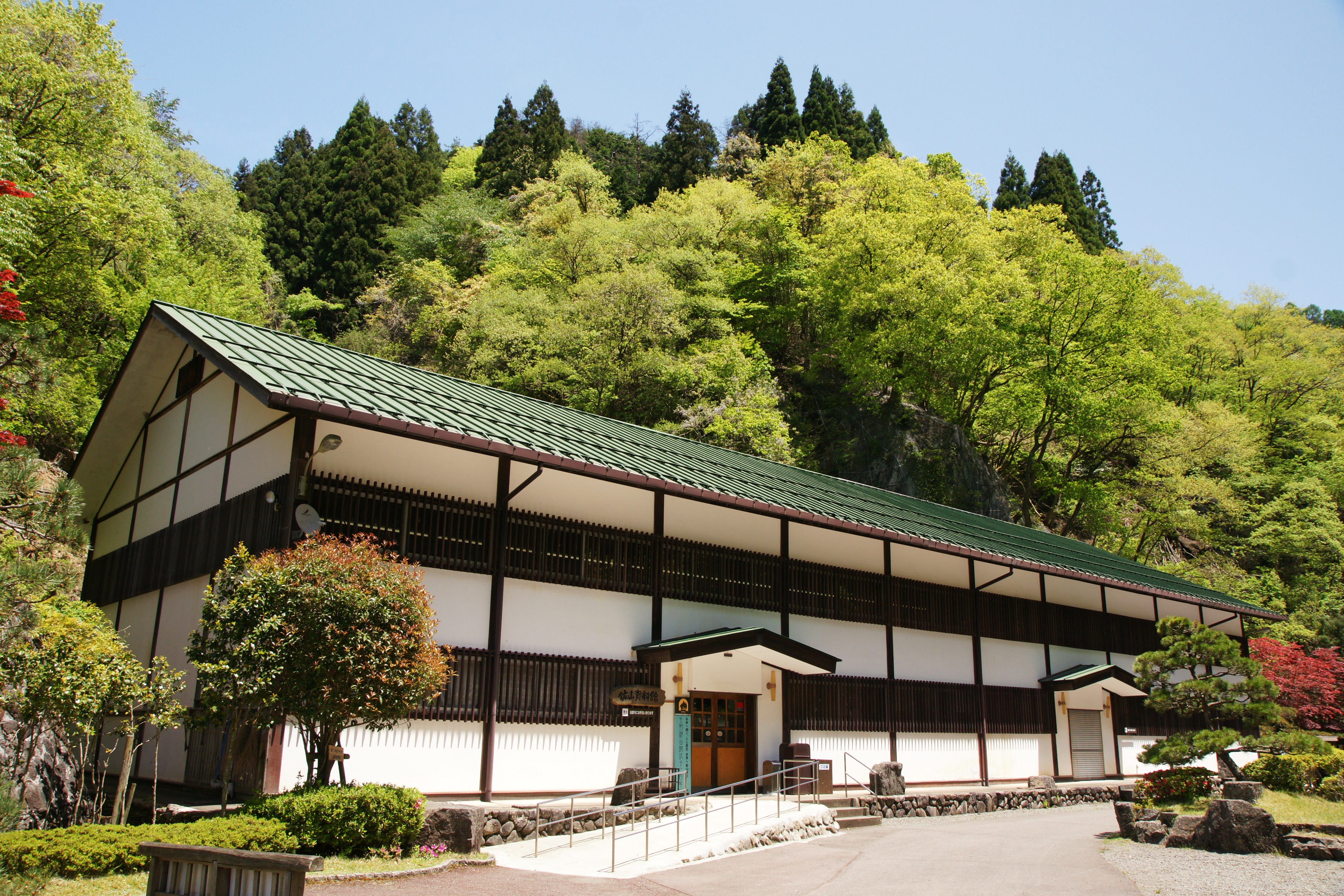 Mine Museum of Ikuno Ginzan Silver Mine in Ikuno, Asago, Hyogo prefecture, Japan.